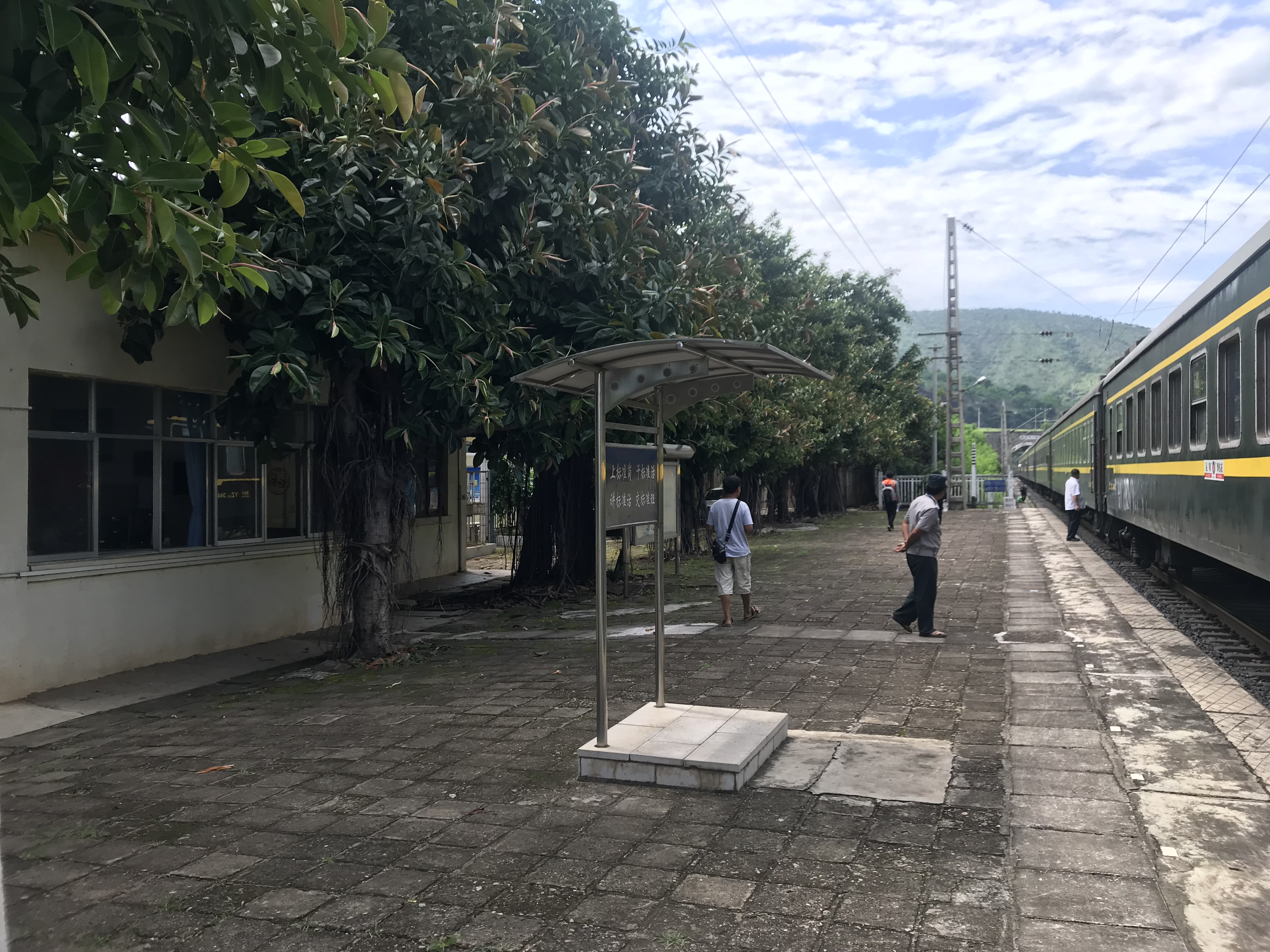 201908 Platform and Station Building of Xiaoyuejiu